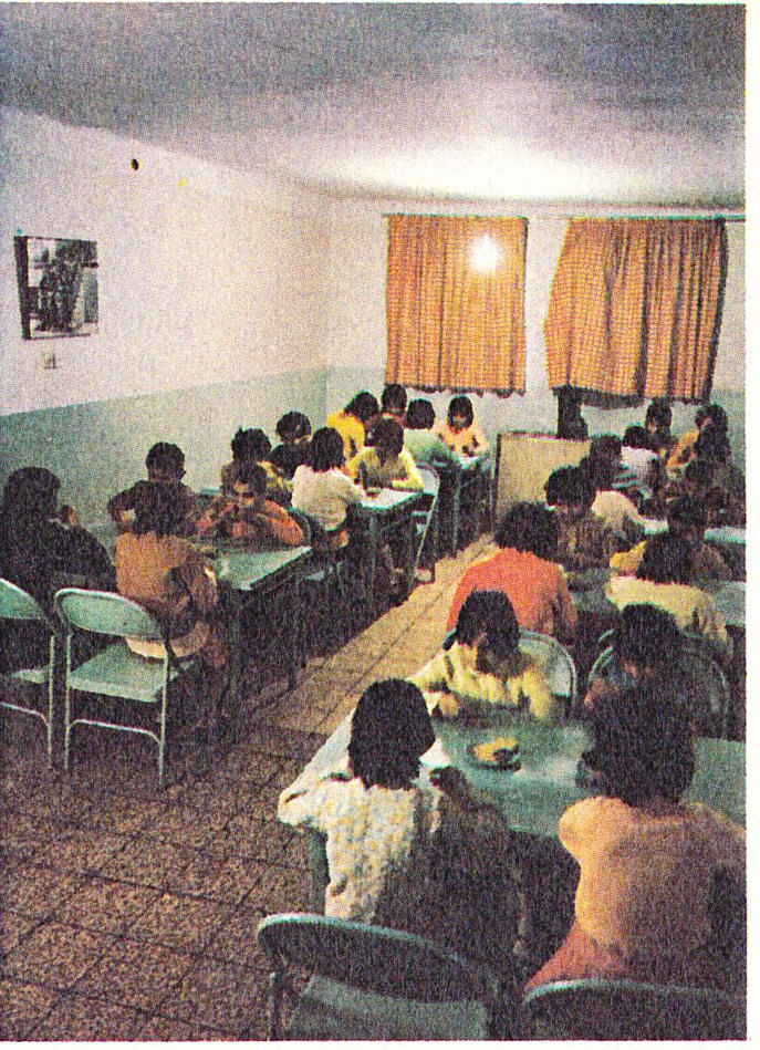 Orphanage Iran, dining room